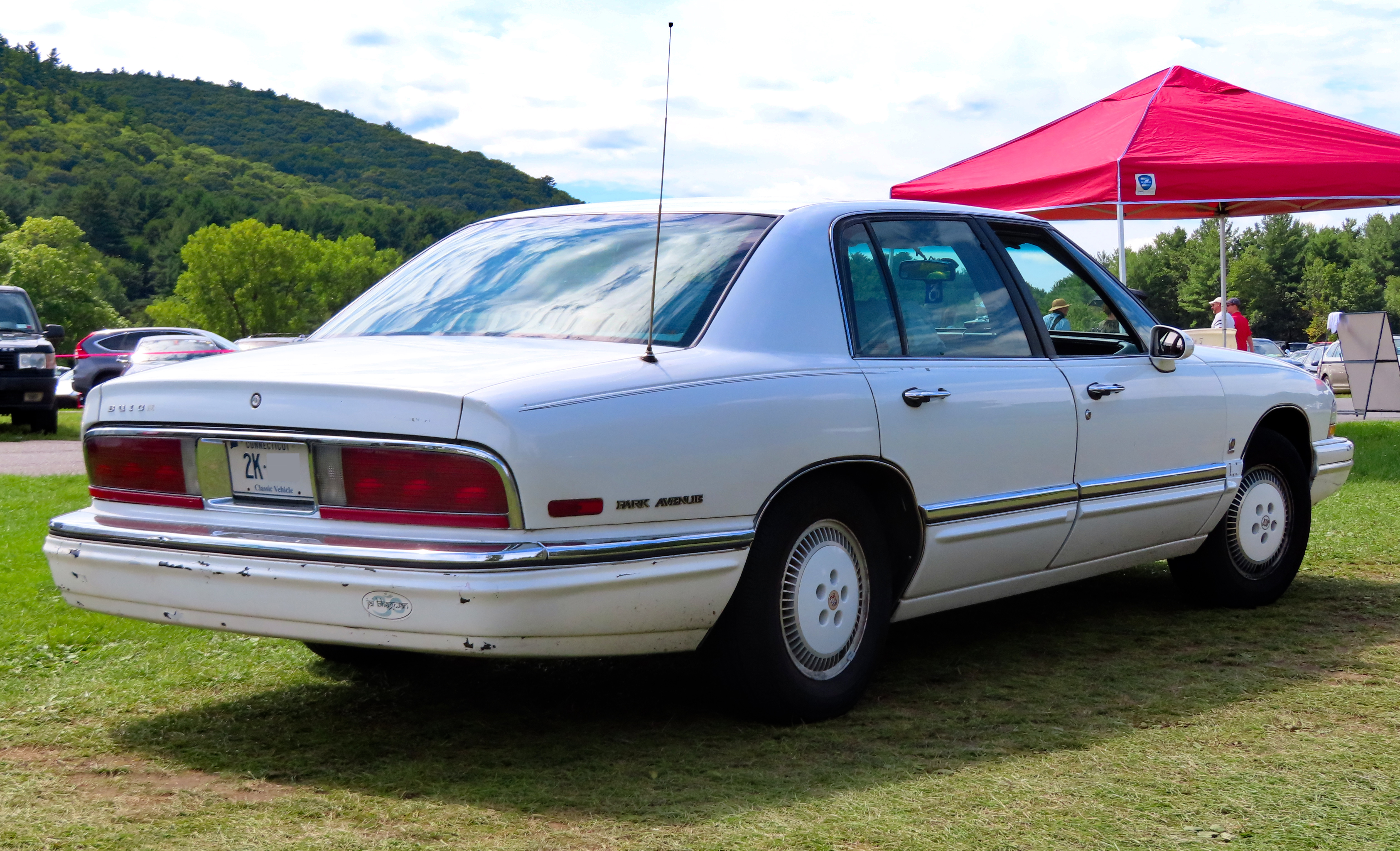 A 1993 Buick Park Avenue photographed during the 2019 Lime Rock Concours d'Elegance, at Lime Rock Park, Lakeville, Connecticut, USA